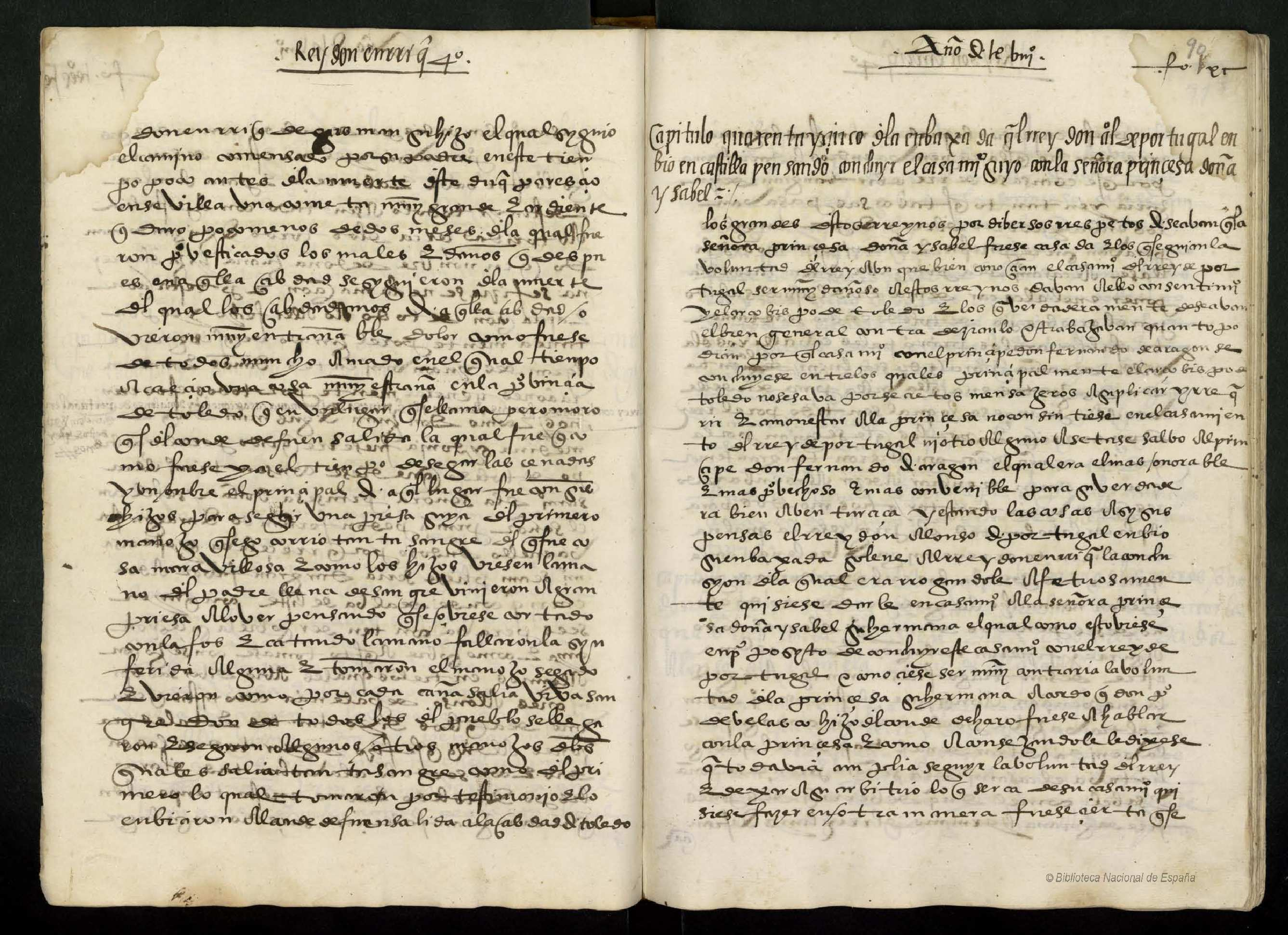 Ejemplo del Memorial de Diversas hazañas.